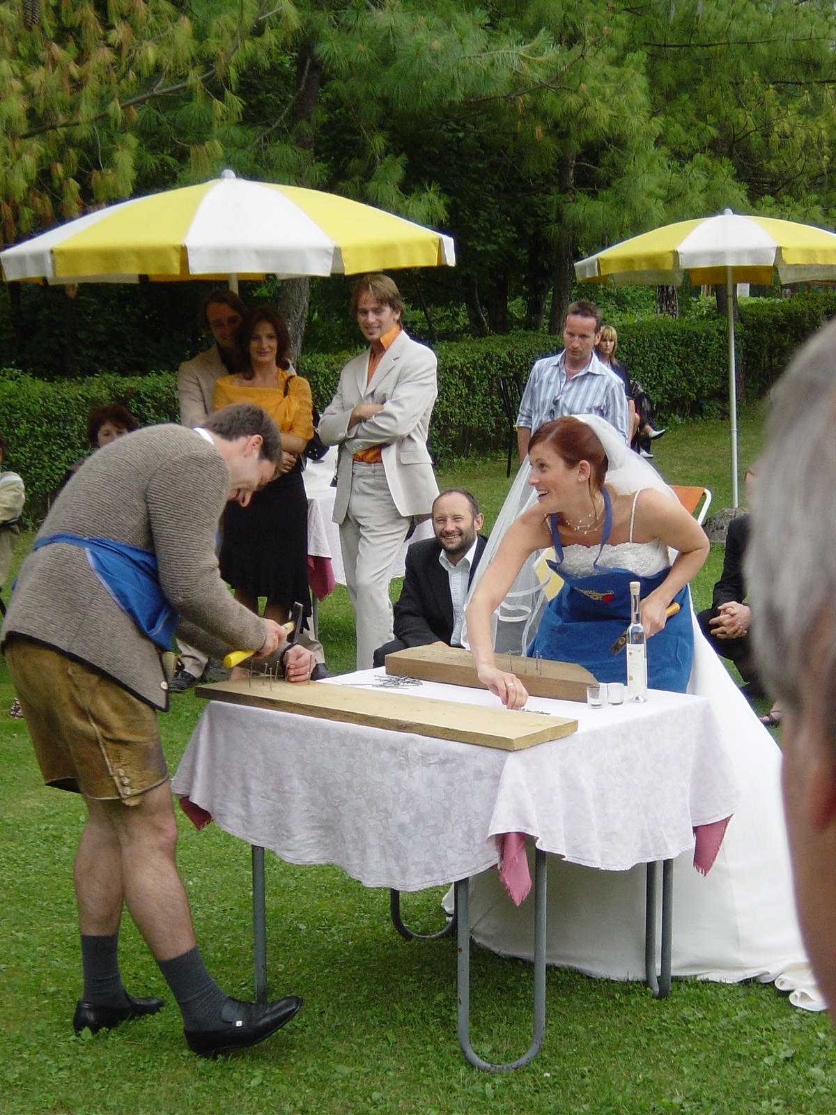 Nagelbalken Competition at a wedding